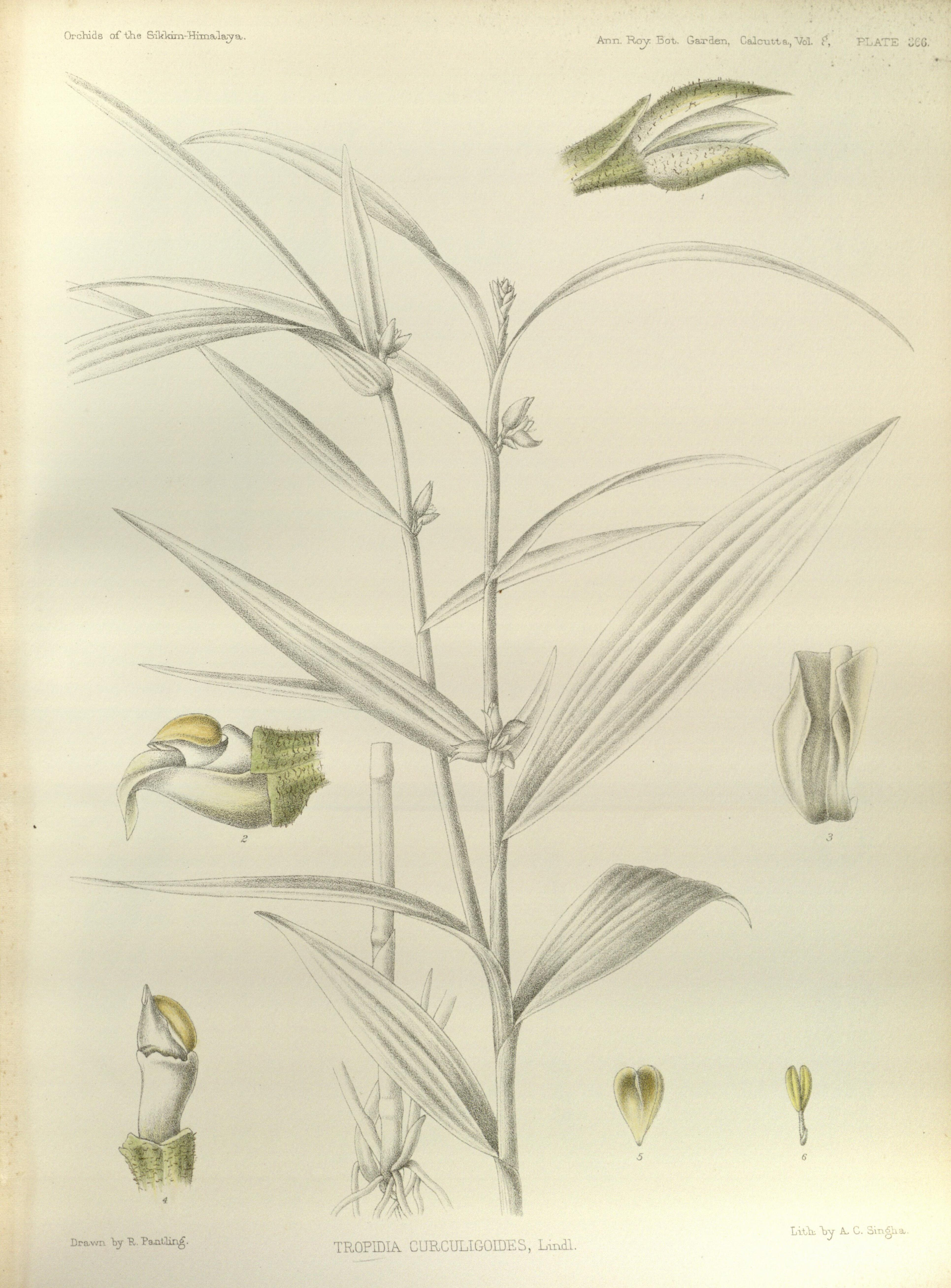 Illustration of Tropidia curculigoides